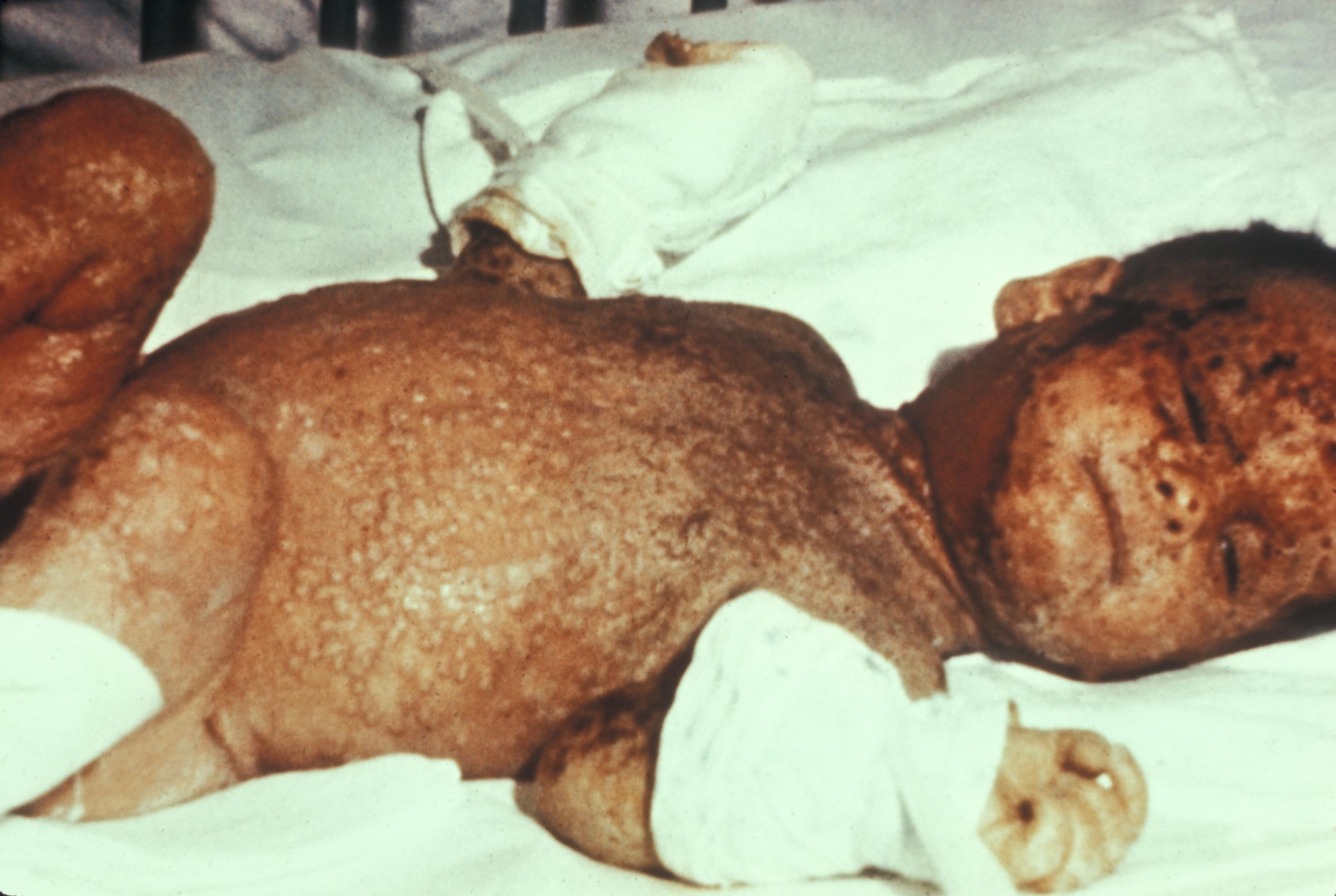 This 8 mo. old boy developed eczema vaccinatum after he had acquired vaccina from a sibling recently vaccination for smallpox. Eczema vaccinatum is a serious complication, which occurs in people with atopic dermatitis who come in contact with the vaccinia virus. These individuals are at special risk of implantation of vaccinia virus into the diseased skin.